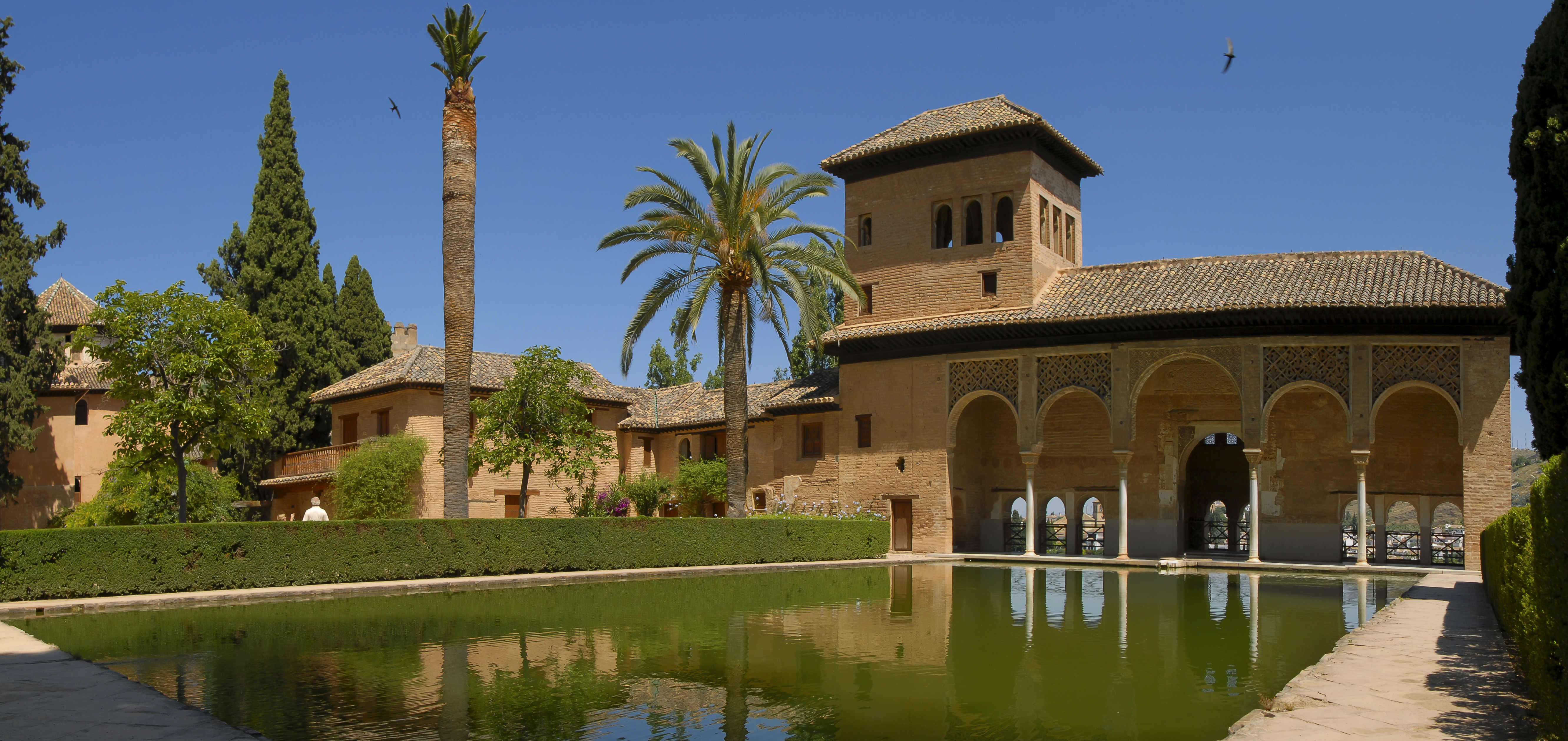 El Partal in Alhambra palace in Granada